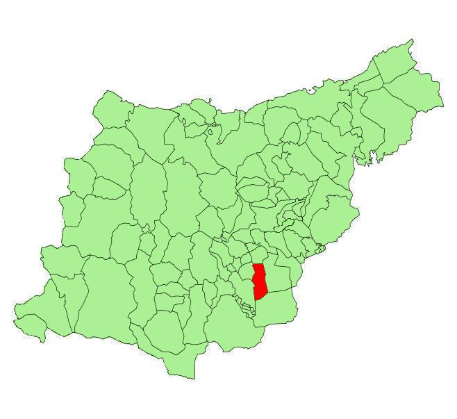 Abaltzisketa municipality in the province of Guipuzcoa